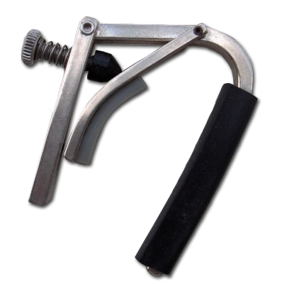 Photoshopped version of image (below) to remove background